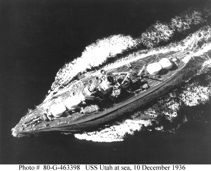 US battleship USS Utah (BB-31) after conversion into a target ship.